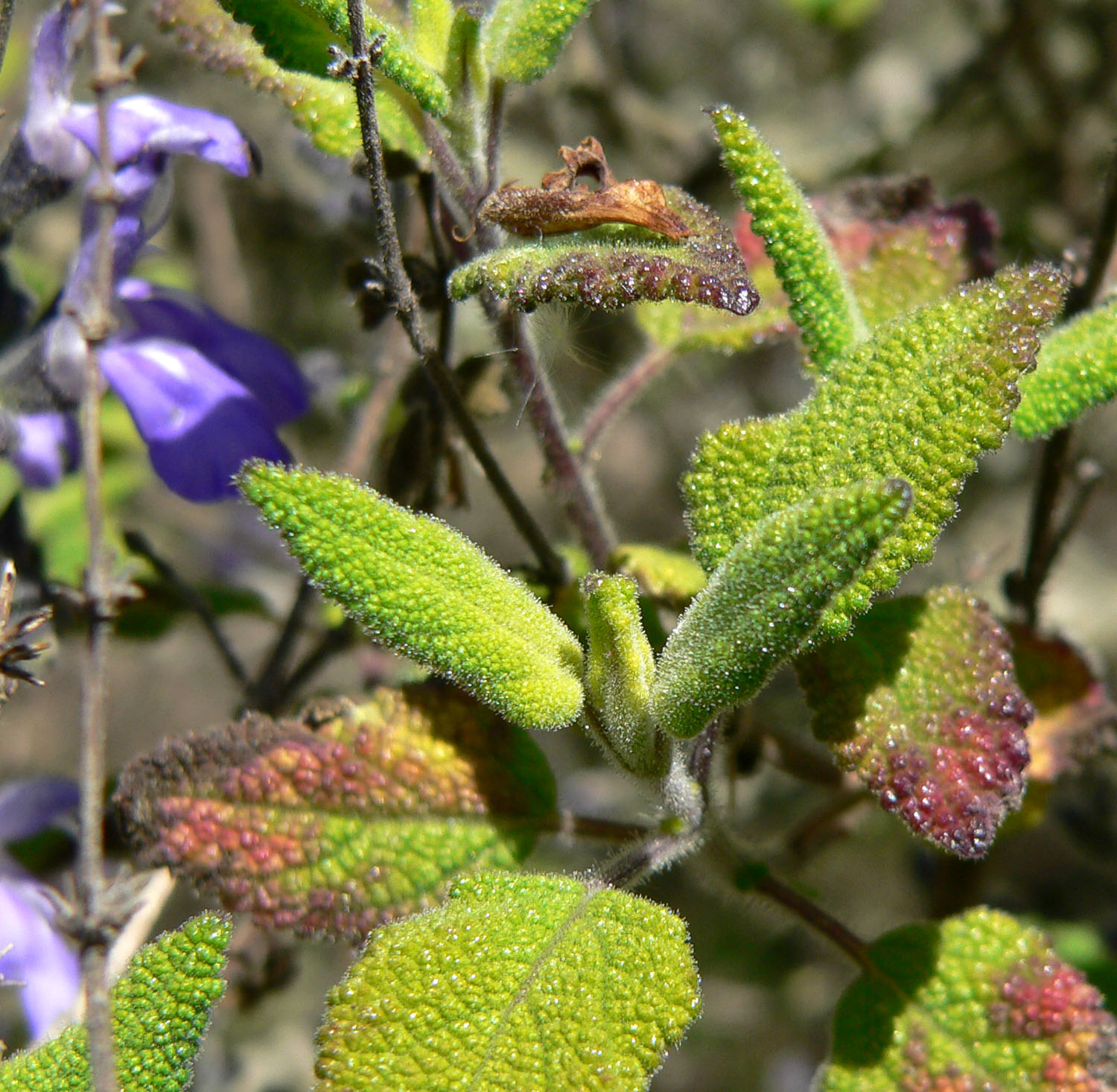 Salvia melissodora at the University of California Botanical Garden, Berkeley, California